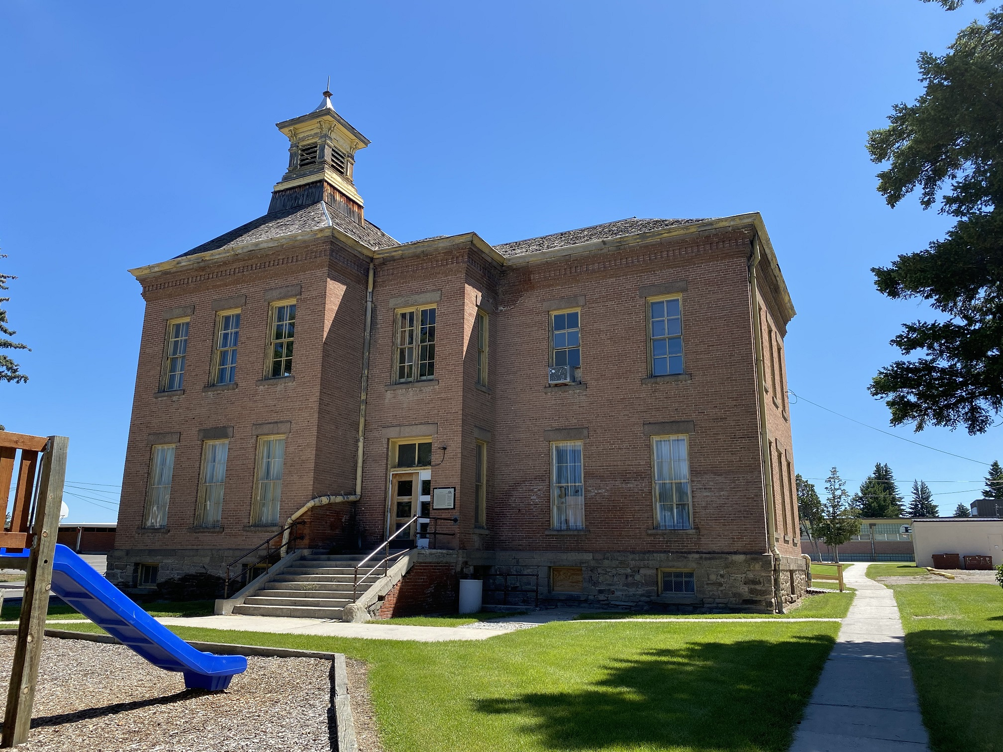 Trask Hall Western view. Lightly used facility on modern school property.